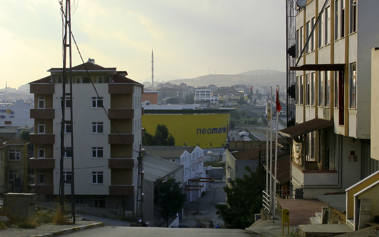 Neomarin in Istanbul-Pendik